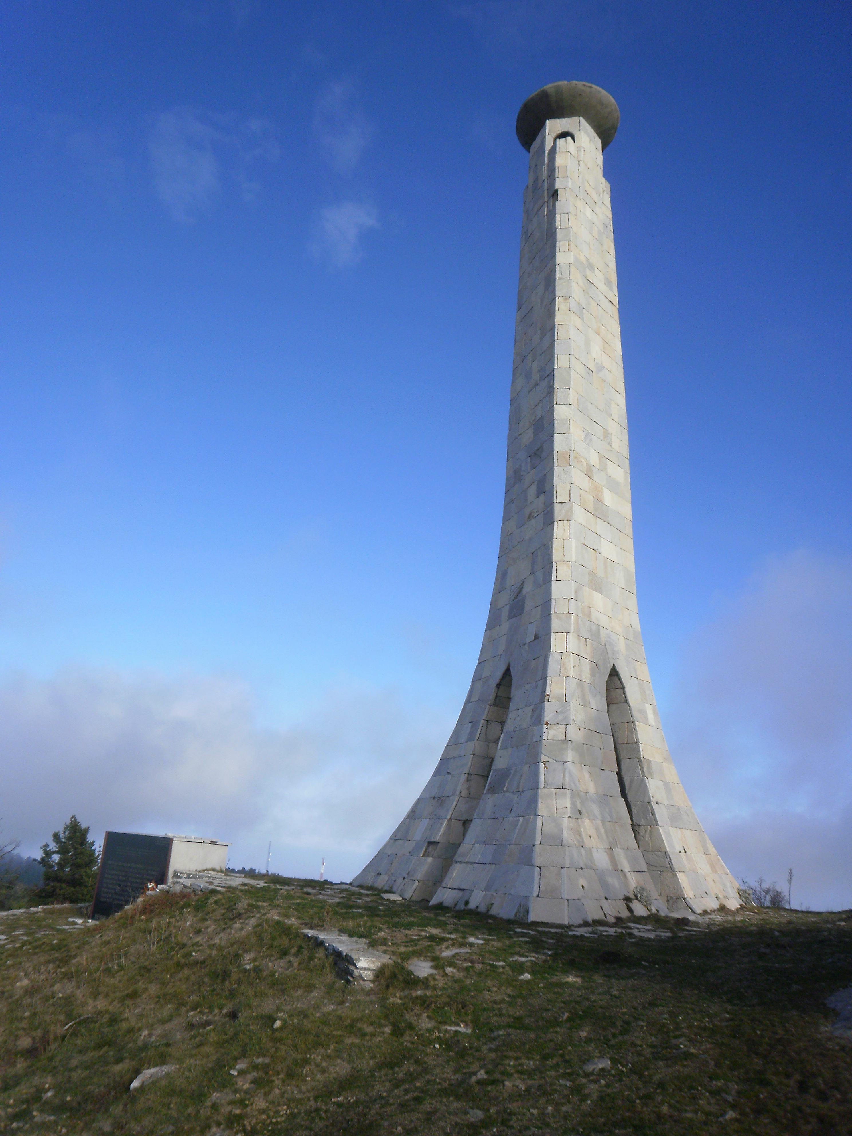 Monument on Milevi skali Peak, Rhodope Mountains, Bulgaria.